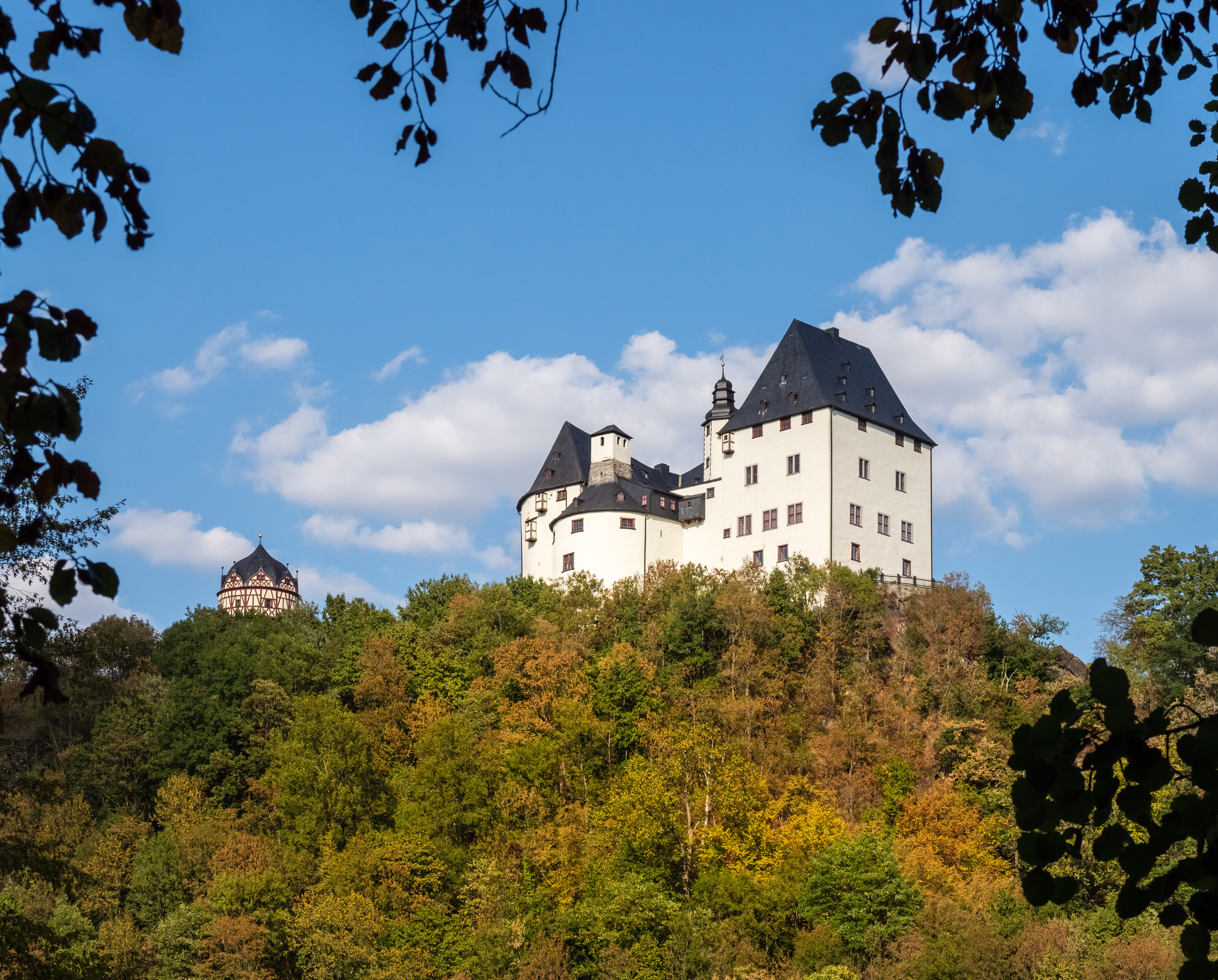 Burgk Castle at the Saale